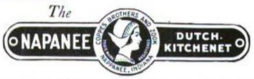 This is a crop of the logo for the Napanee Dutch Kitchenet kitchen cabinet made by Coppes Brothers and Zook, from an advertisement on page 86 of the American Review of Reviews July-December 1918 (The product was spelled Napanee even though the company was located in Nappanee, Indiana.)